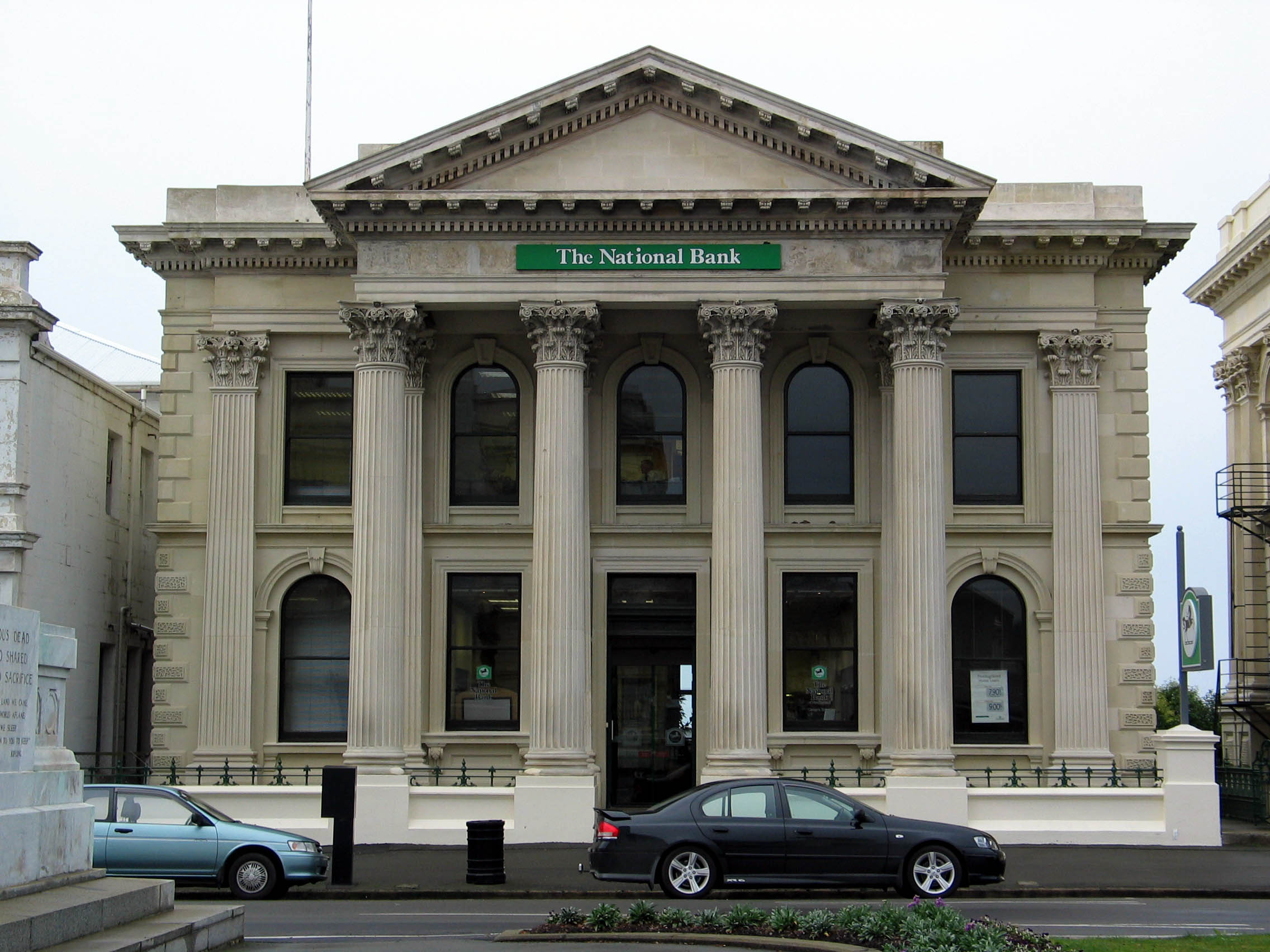 This is the National Bank, in Oamaru, New Zealand. New Zealand Historic Places Trust Register number: 363.